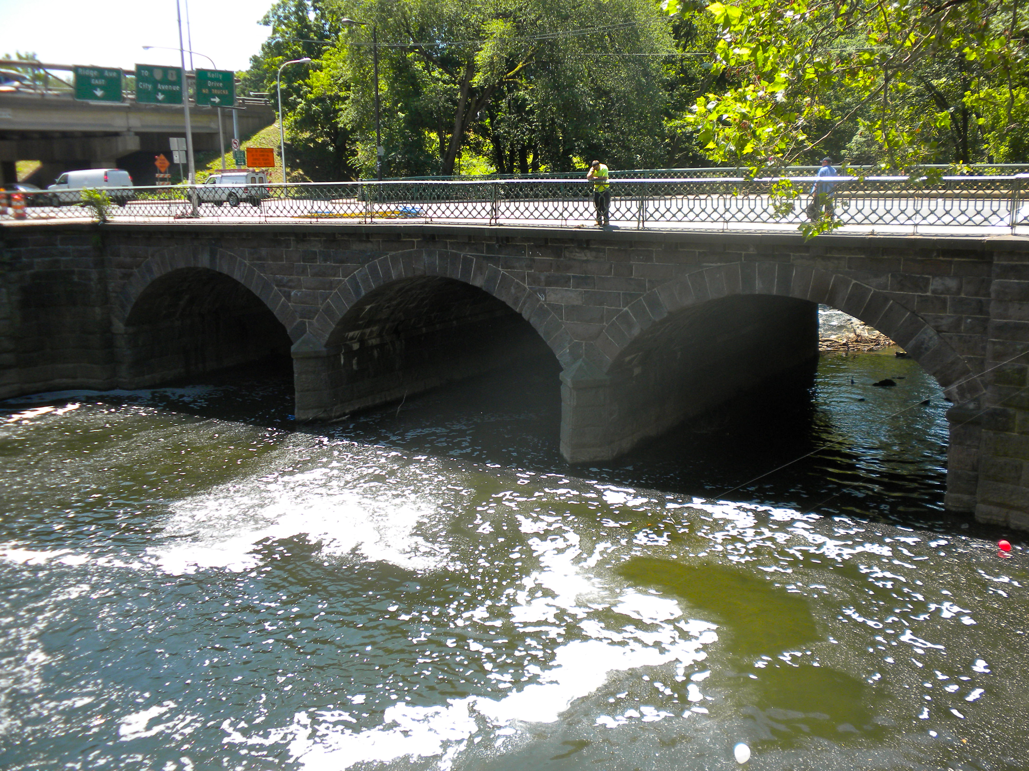 Ridge Avenue Bridge in Philadelphia on NRHP since June 22, 1988. Carries Ridge Avenue over the Wissahickon Creek near its mouth on the Schuylkill River. In Wissahickon neighborhood of NW Philadelphia.